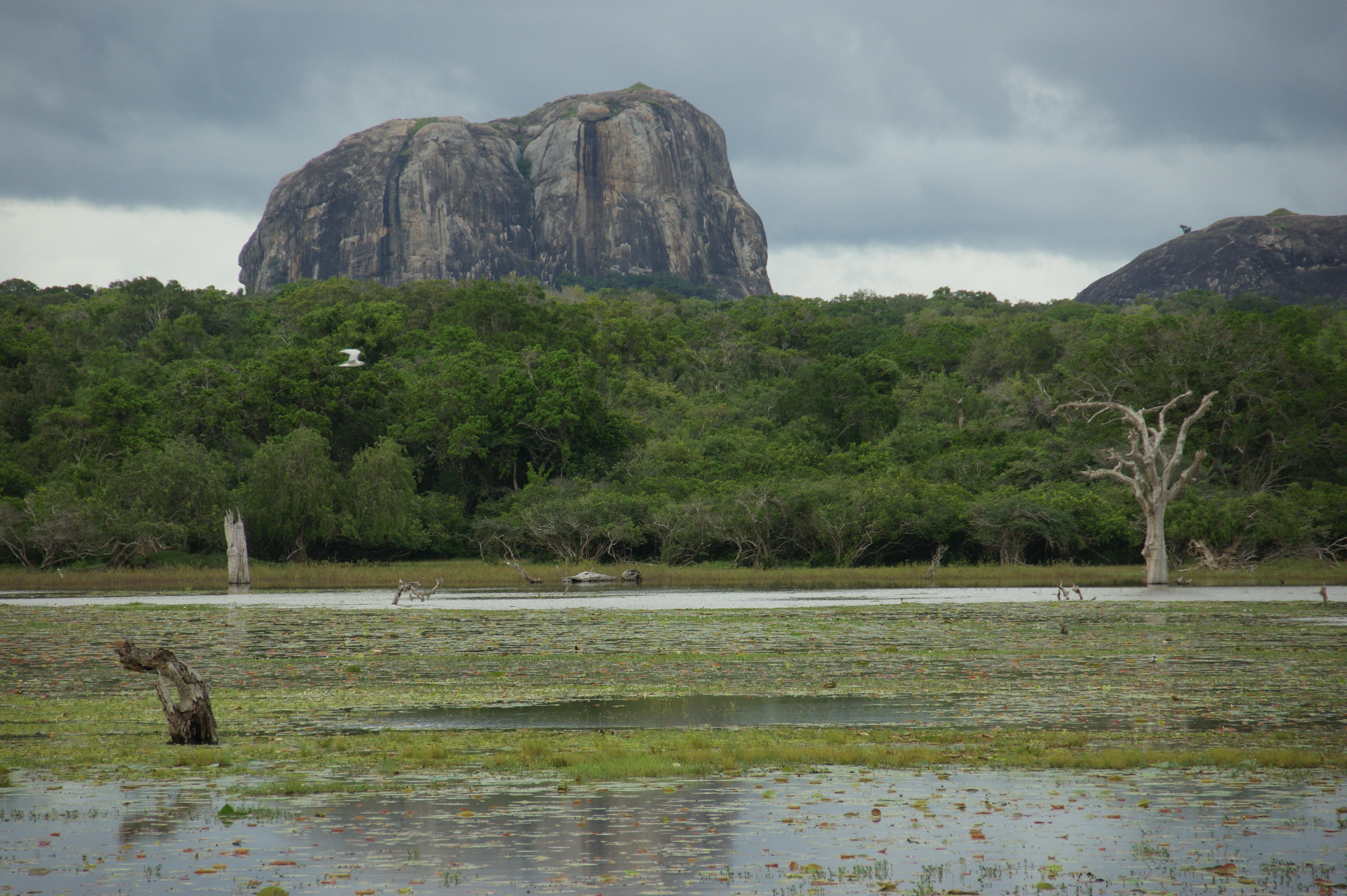 A lake within the Yala National Park